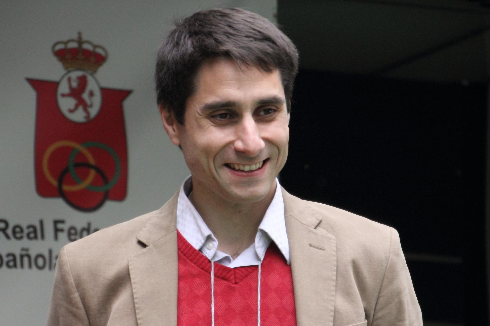 Juan Manuel Molina Morote, spanish racewalker and president of the Athletics Federation of Murcia (Spain) since July 28, 2012. He participated in the Olympic Games in Athens 2004 and Beijing 2008. Photograph taken during the awards ceremony of the Championship of Spain Racewalking 2013, in Murcia.